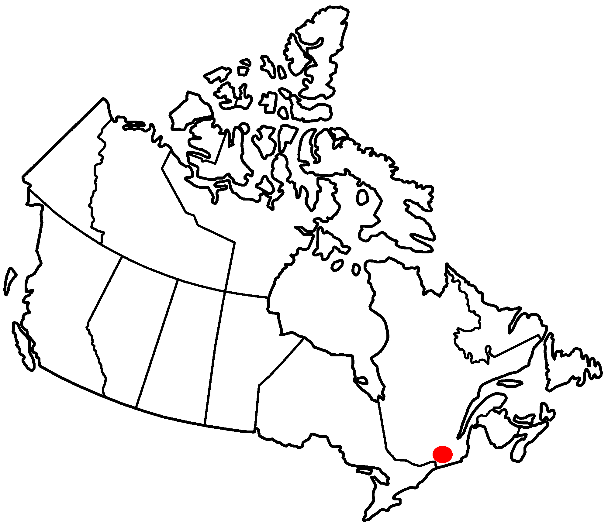 Map of Canada showing location of the city of Montreal.